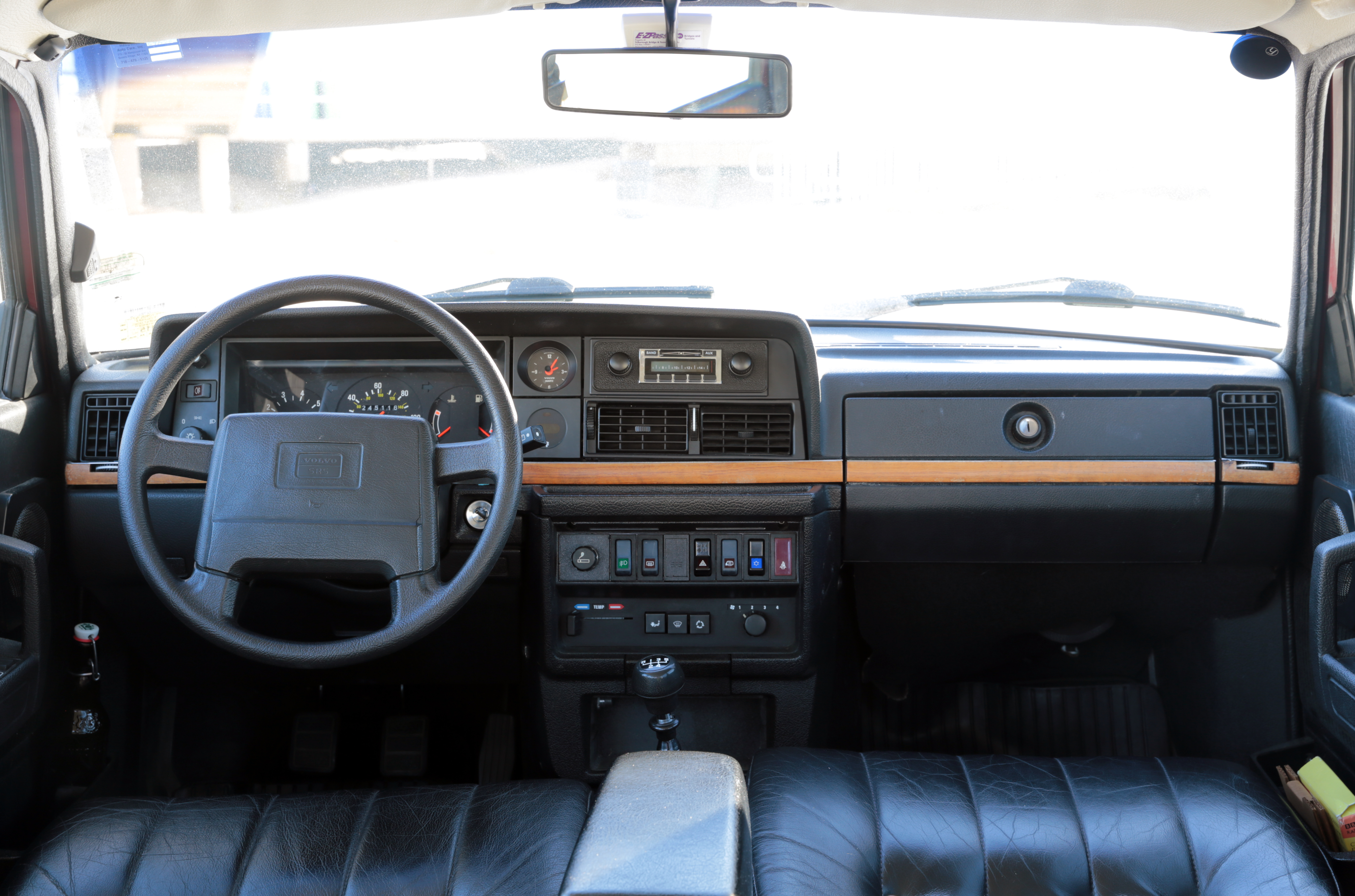 Dashboard of a 1993 Volvo 240 Classic Wagon (aka 245). Leather, wood trim, and all the goodies came standard on the Classic. This car has a digital thermometer in place of the numbered plaque that these cars originally came with. Already published on Flickr.